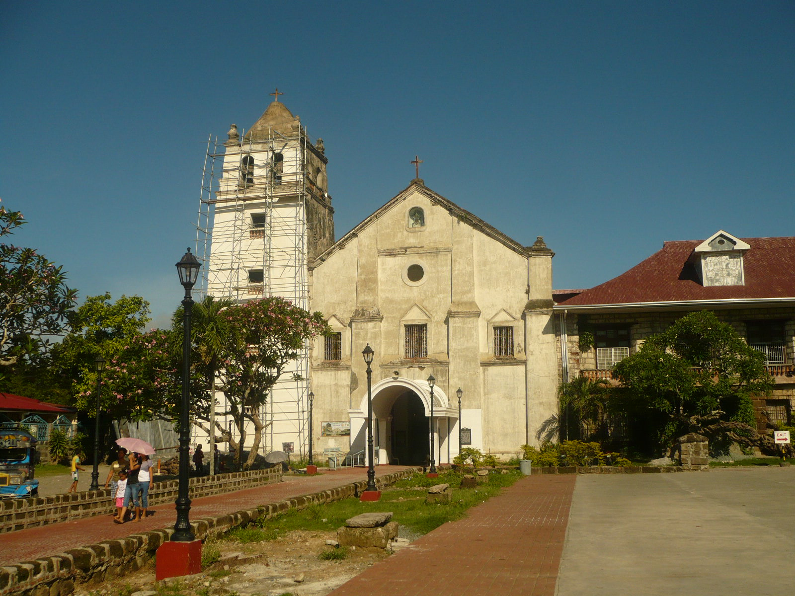 Maragondon Church